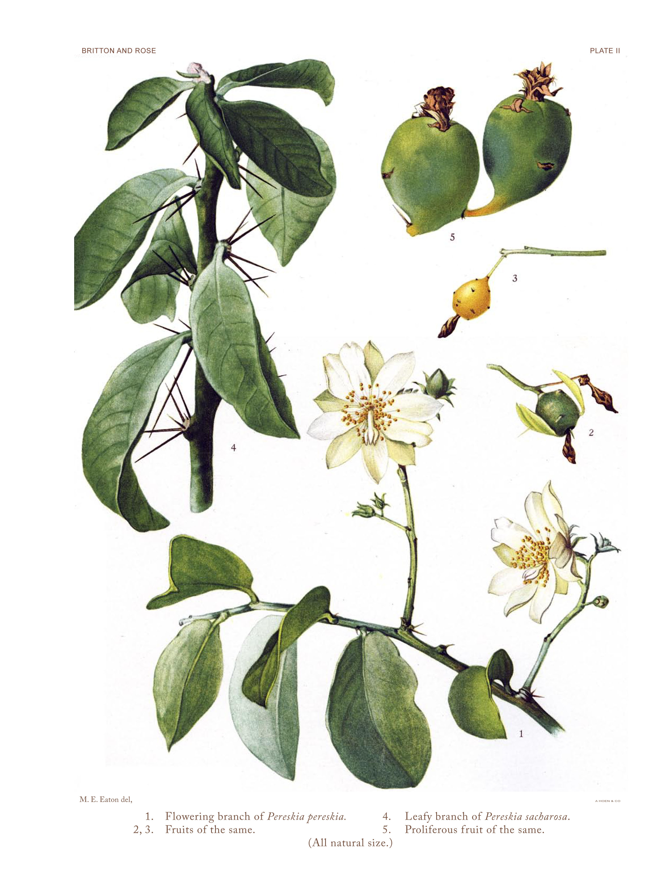 Plate II from Britton, Rose: The Cactaceae. Volume I